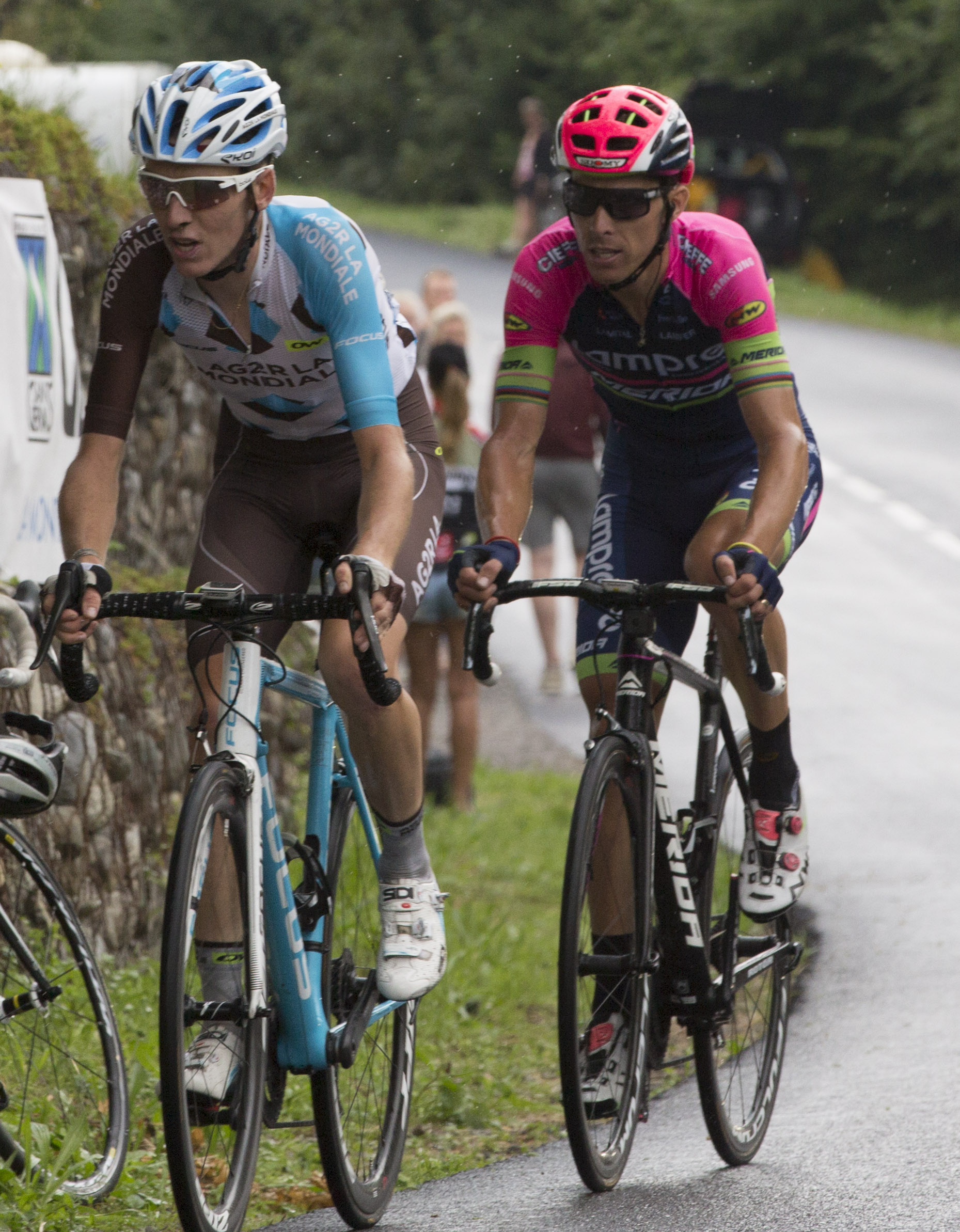 Stage 19 - Albertville to Saint-Gervais Mont Blan